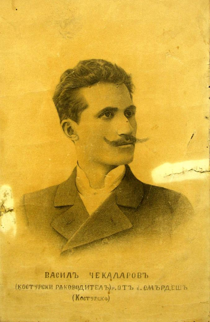 Vassil Tchekаlaroff (*1872,†1913)